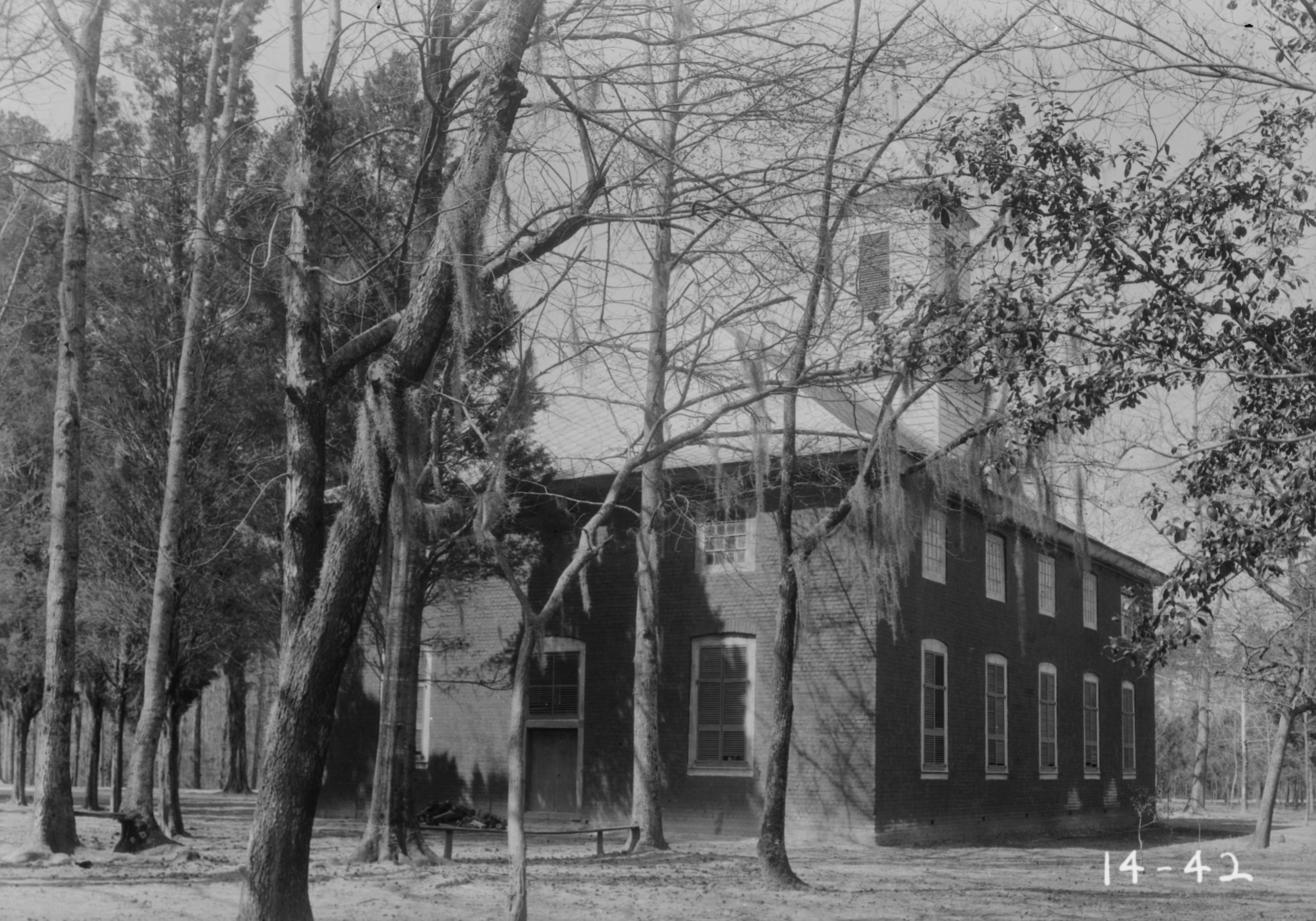 Front of Jerusalem Lutheran Church, located along Ebenezer Road in Ebenezer, a ghost town in Effingham County, Georgia, United States. Built in 1767 and the only remaining building in use in Ebenezer, it is part of a historic district, the "Ebenezer Townsite and Jerusalem Lutheran Church", which is listed on the National Register of Historic Places.